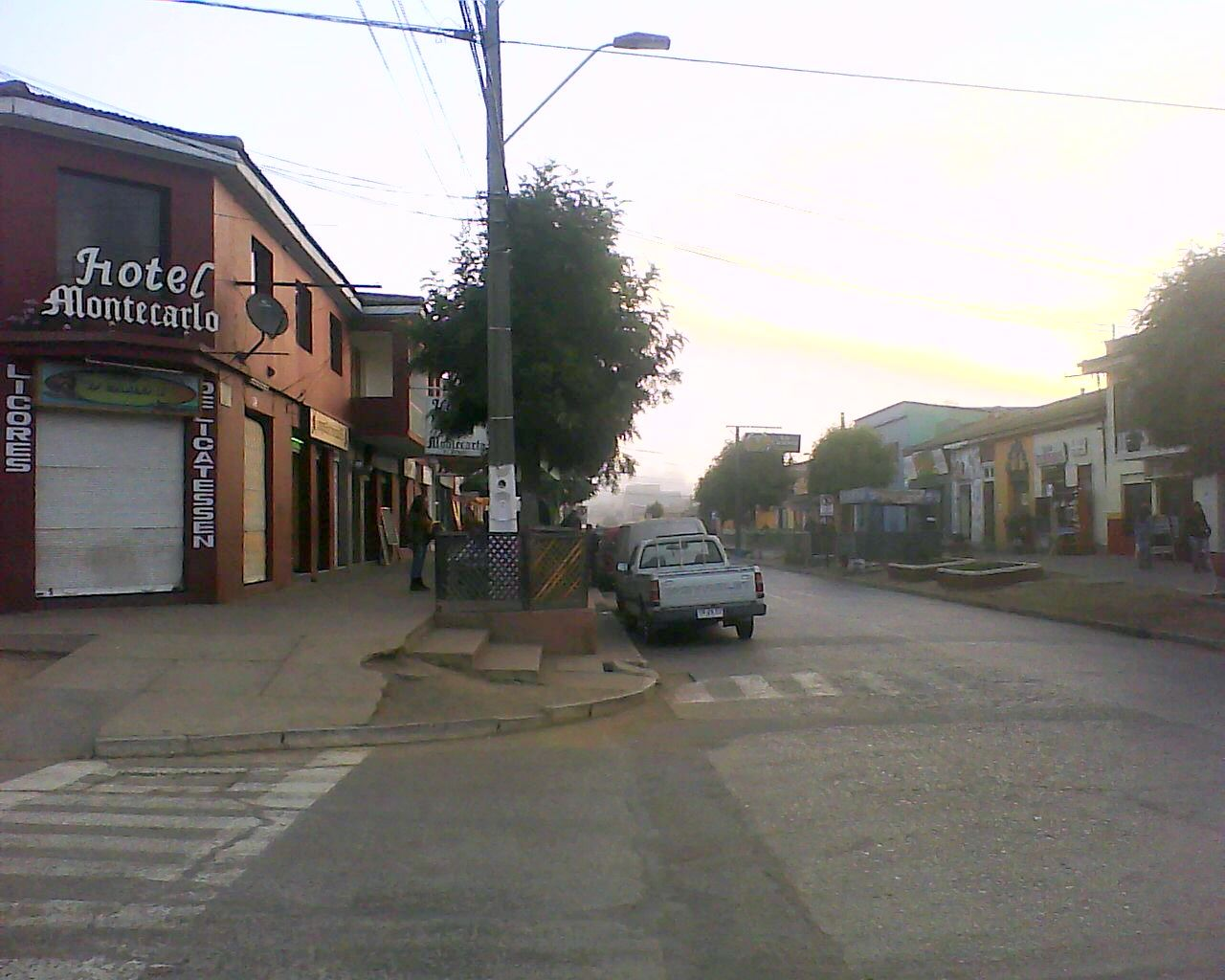 The centre of Pichilemu, street Anibal Pinto.